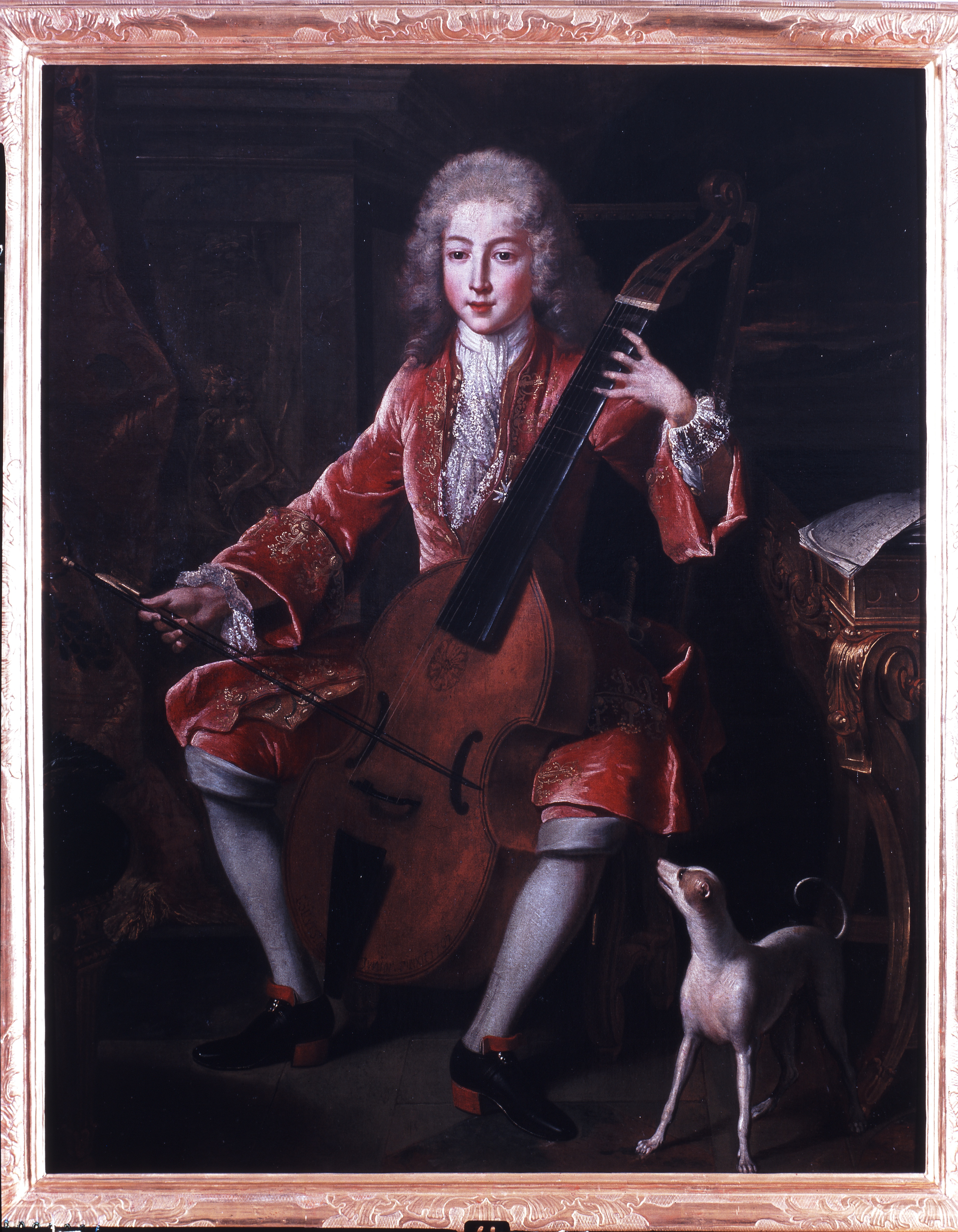 Portrait of Maximilien-Emmanuel, Chevalier de Bavière (1695-1747), son of Maximilian II Emanuel, Elector of Bavaria and his mistress Agnes Le Louchier